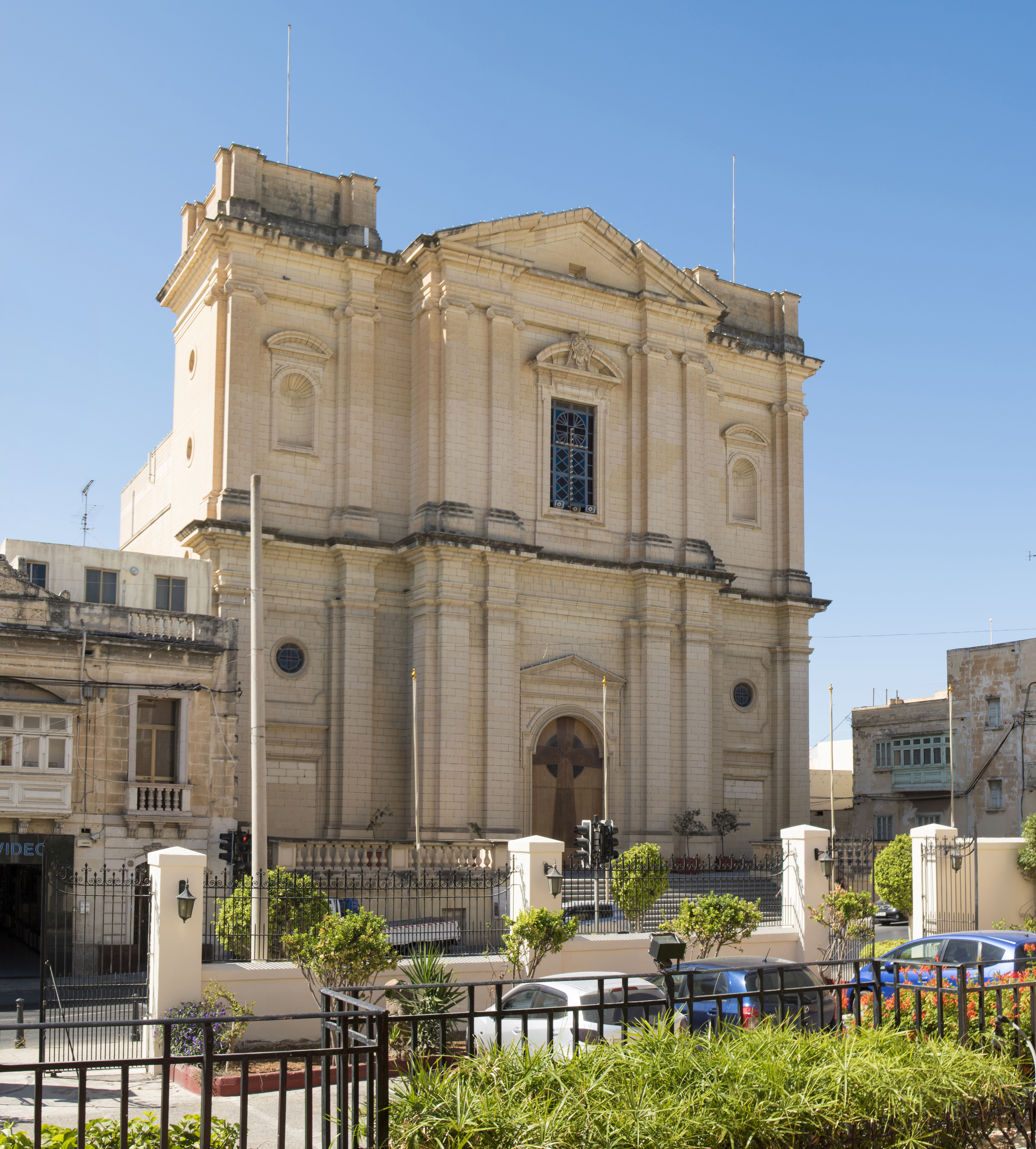 Parish Church of St. Venera in St. Joseph High Road, Santa Venera, Malta This media is about Maltese cultural property with inventory number 00198.